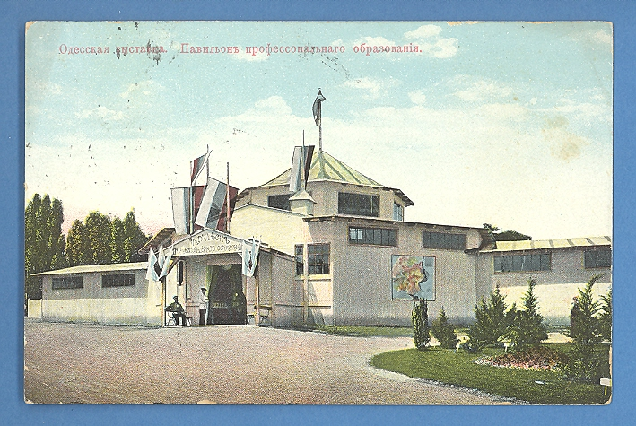 Old Carte Postale (Open Letter) with view of pavillion of Professional Education at Odessa Exposition 1910